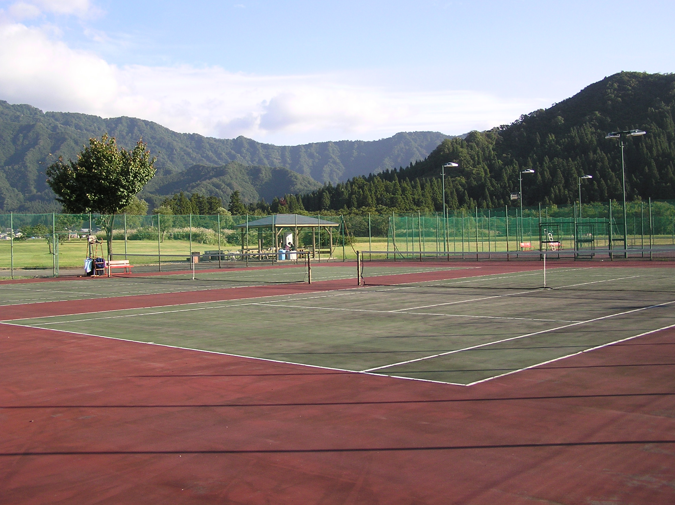 Tennis courts at the International University of Japan, in scenic surroundings.